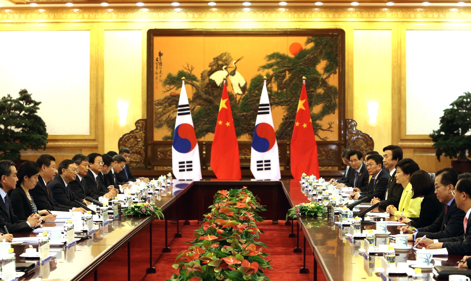 Korea-China extended summit 2013. 06. 27. Photo=Cheong Wa Dae (Related Article) ‘President Park holds 1st Korea-China summit in Beijing’ Presidential trip to reshape future vision of Seoul-Beijing ties 한ㆍ중 확대 정상 회담 베이징, 중국 사진=청와대 人民大会堂东门外广场举办欢迎仪式迎接韩国总统朴槿惠